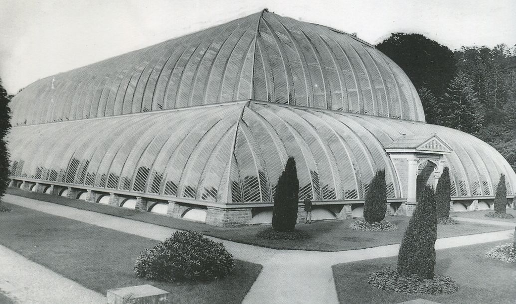 The Great Conservatory at Chatsworth in a 19th century photo.